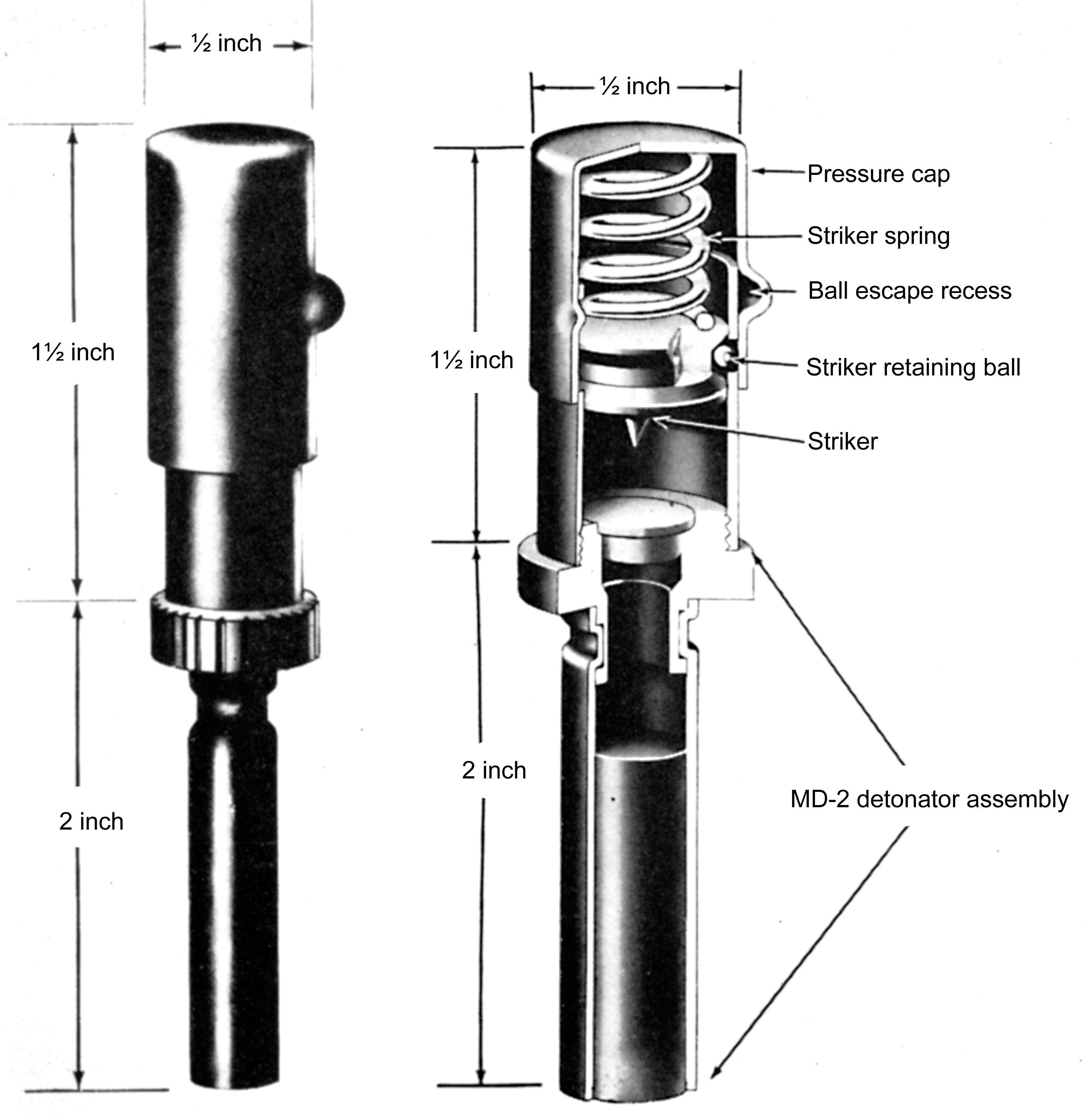 A Russian MV-5 pressure fuze used for booby-trap purposes. As downward pressure is applied to the pressure cap, the spring compresses. When the ball escape recess descends to the level of the striker retaining ball, the ball is pushed into the recess, allowing the stored energy in the spring to push the striker into the percussion cap, which then activates the detonator.